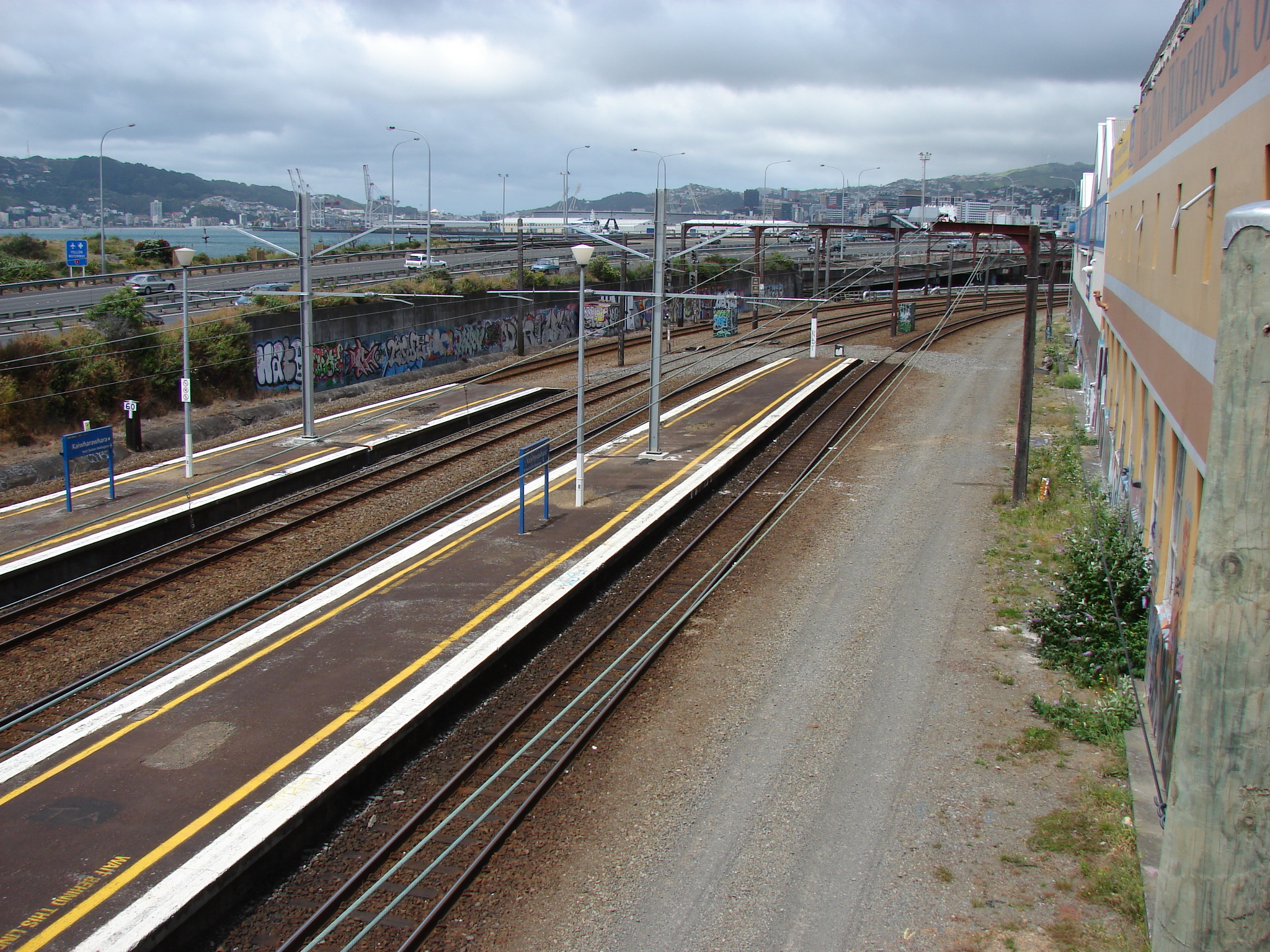 Kaiwharawhara railway station, looking south in the direction of Wellington. Photographed by Matthew25187 on 2007-12-24.